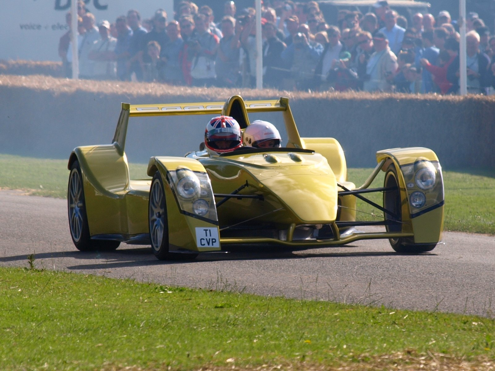 A Caparo T1 at the Goodwood Festival of Speed, July 12, 2008